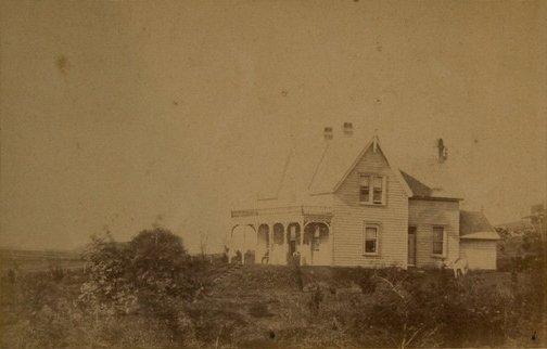 Alberton began life as a two-storey timber farm house for Allan Kerr Taylor and his first wife Patty. Erected as the centrepiece of their 500 acre Mt Albert country estate, the house had at least 11 rooms and a cellar. Patty died in 1864 and 16 months later Allan remarried Sophia Louisa Davis. The family’s income shifted from farming to land sales and investments and it is around this time, in the 1870s, that the house was probably converted into a fashionable mansion. Additions included an eastern wing with ballroom and a set of exotic corner towers with curved, ogee-shaped roofs, which may have reflected Allan's Indian upbringing.